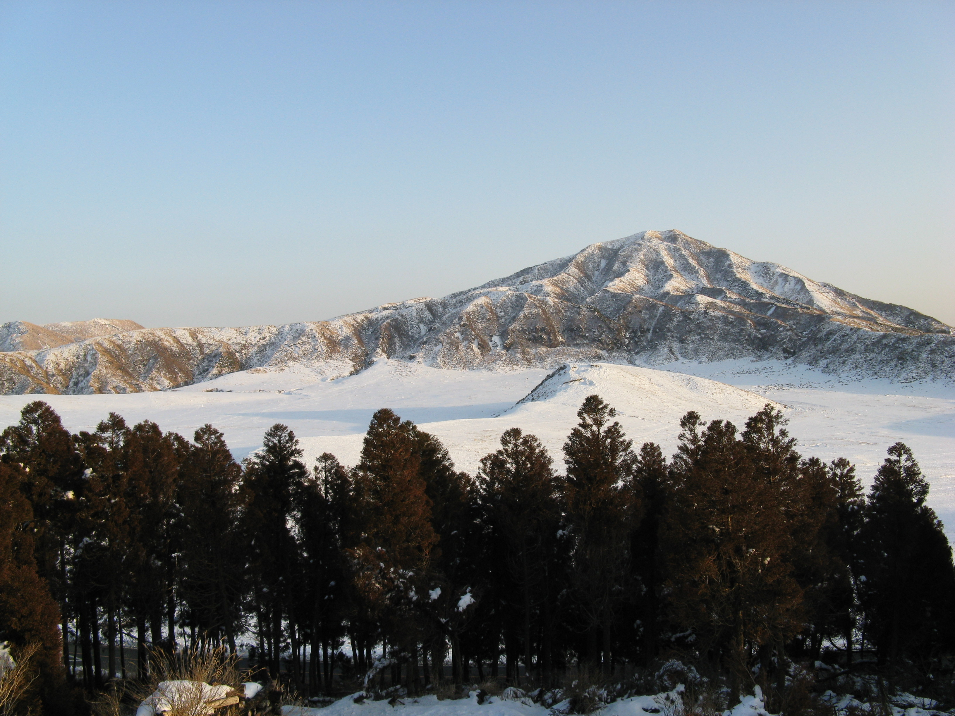 Kusasenrigahama in winter